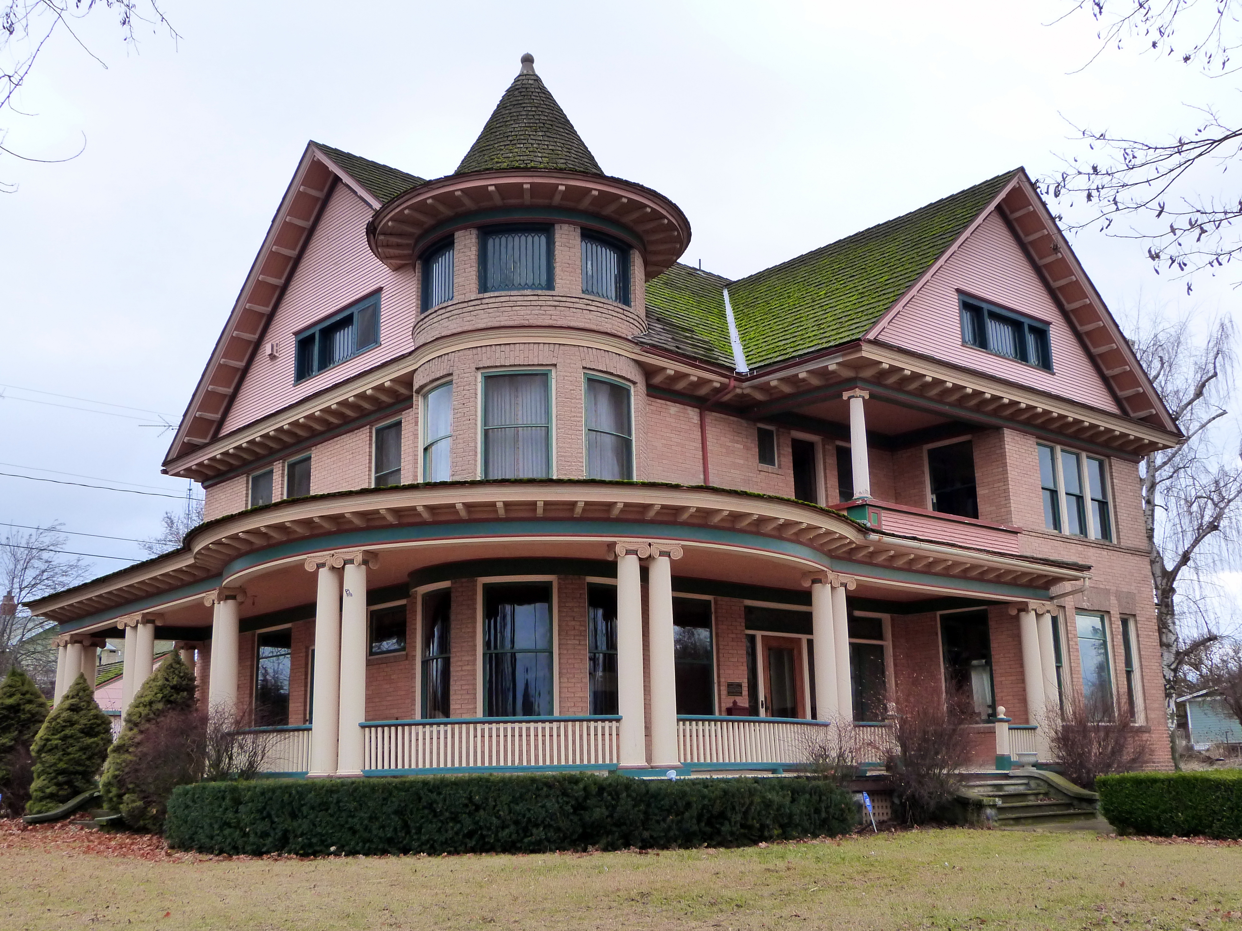 The historic Nelson H. Greene House (built 1902), located at 408 West Main Avenue in Ritzville, Washington, United States, is listed on the US National Register of Historic Places.